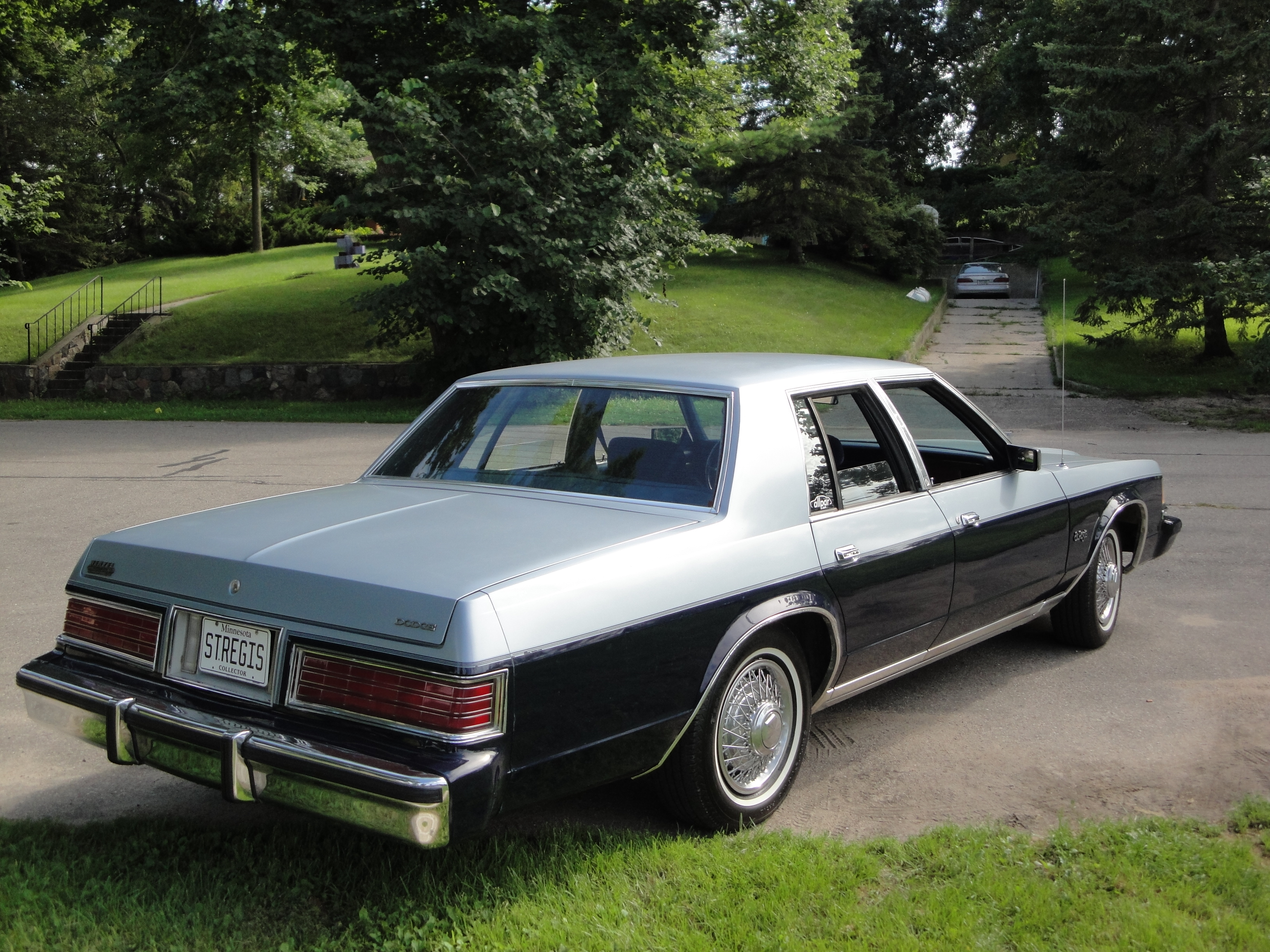 View On Black Silver Anniversary New London to New Brighton Antique Car Run August 12, Pre-Tour